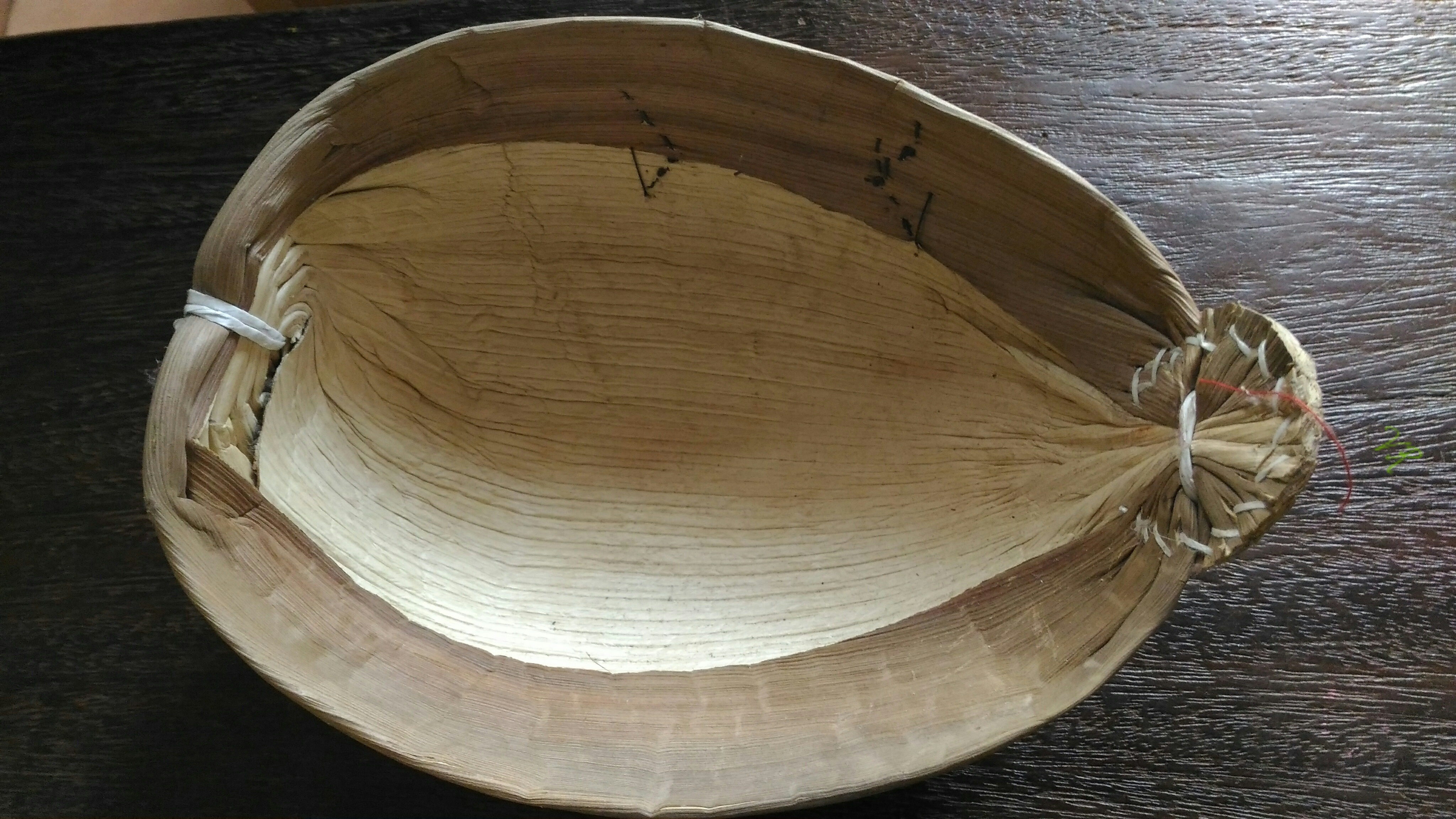 Hat_ palathoppi_inner view